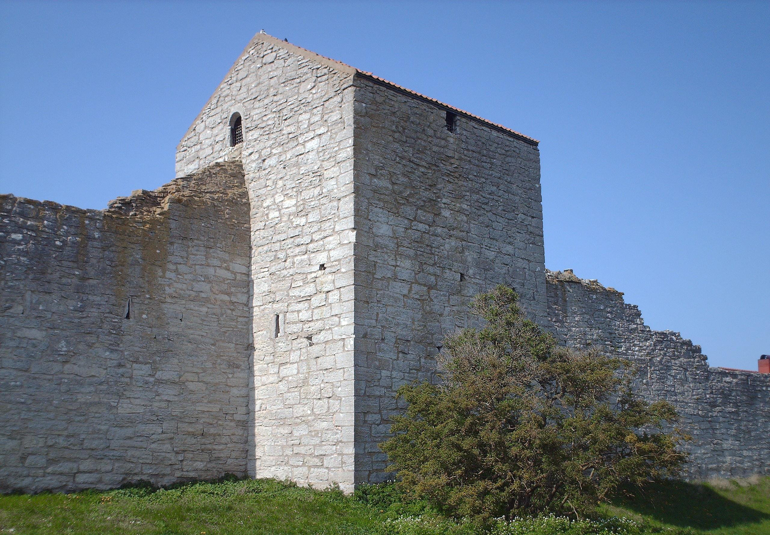 The Kajsar Tower, Visby City Wall, Sweden